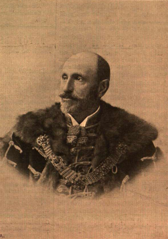 Ernő Dániel Minister of Trade (1895-1899) in Hungary